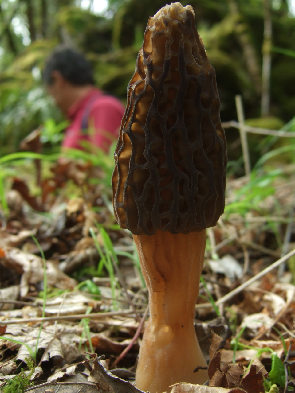 Morchella conica